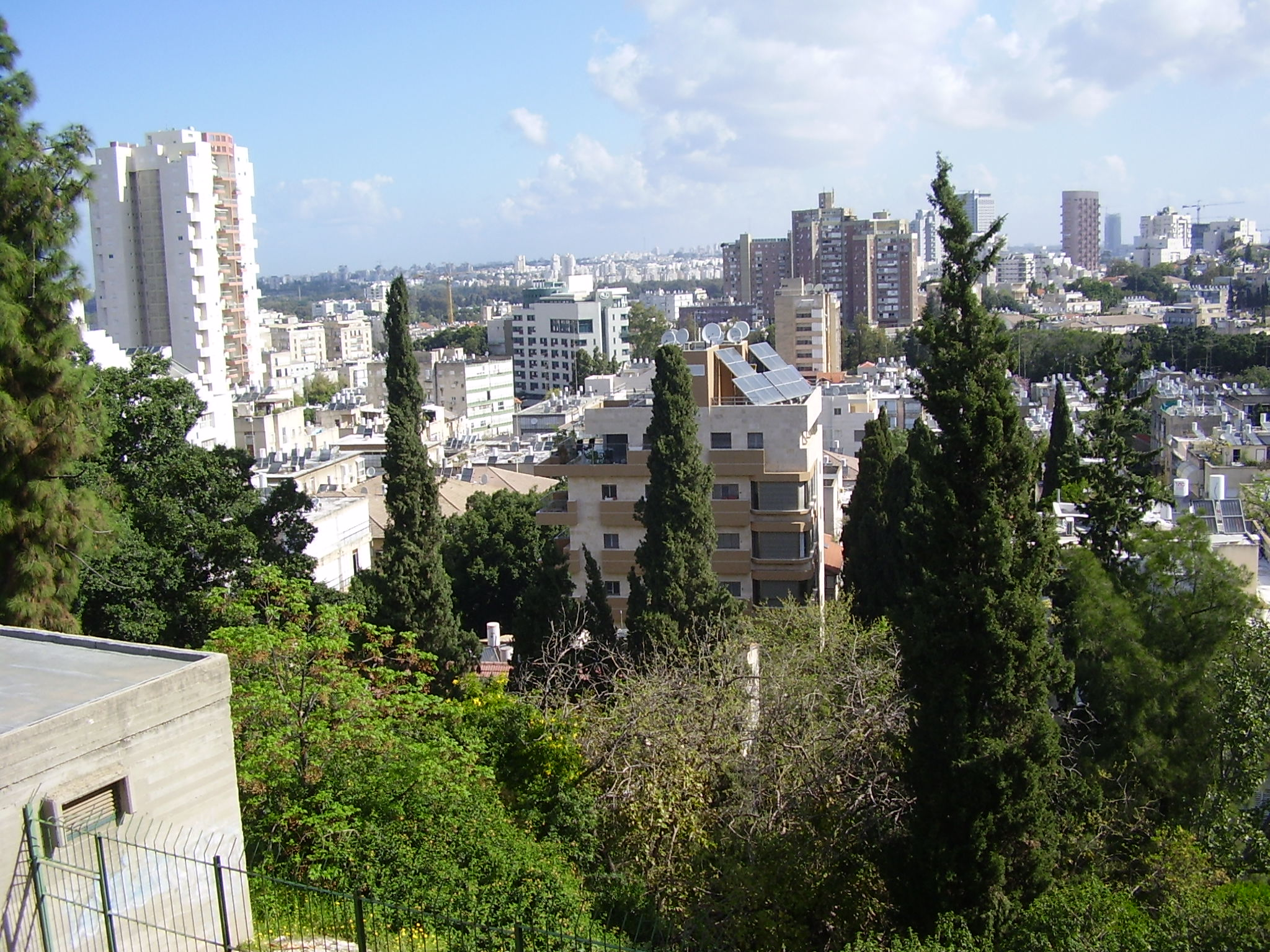 view of ramat gan from gan shaul תצפית על רמת גן מגן שאול